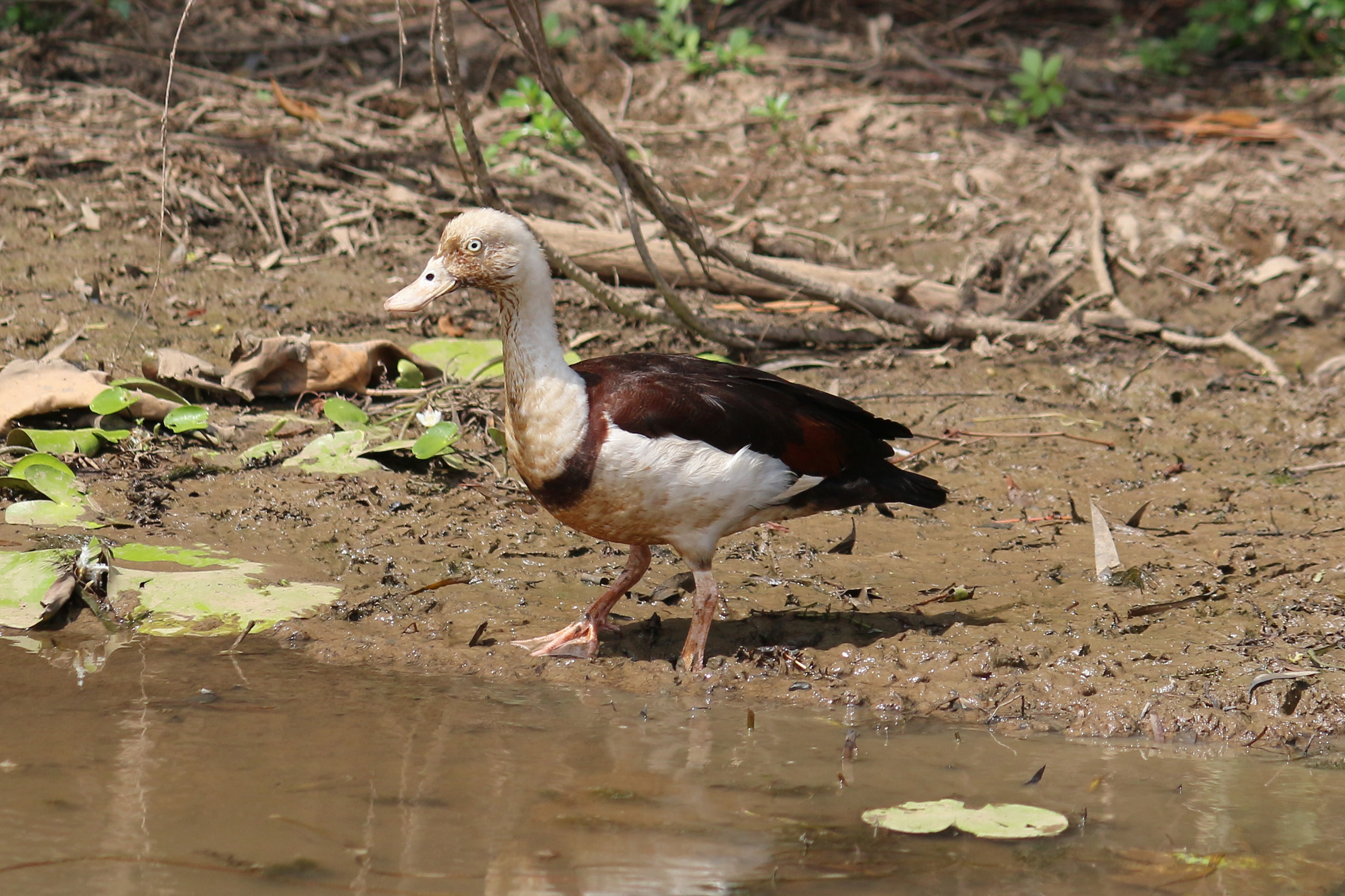 Radjah shelduck (Radjah radjah), Kakadu National Park, Australia